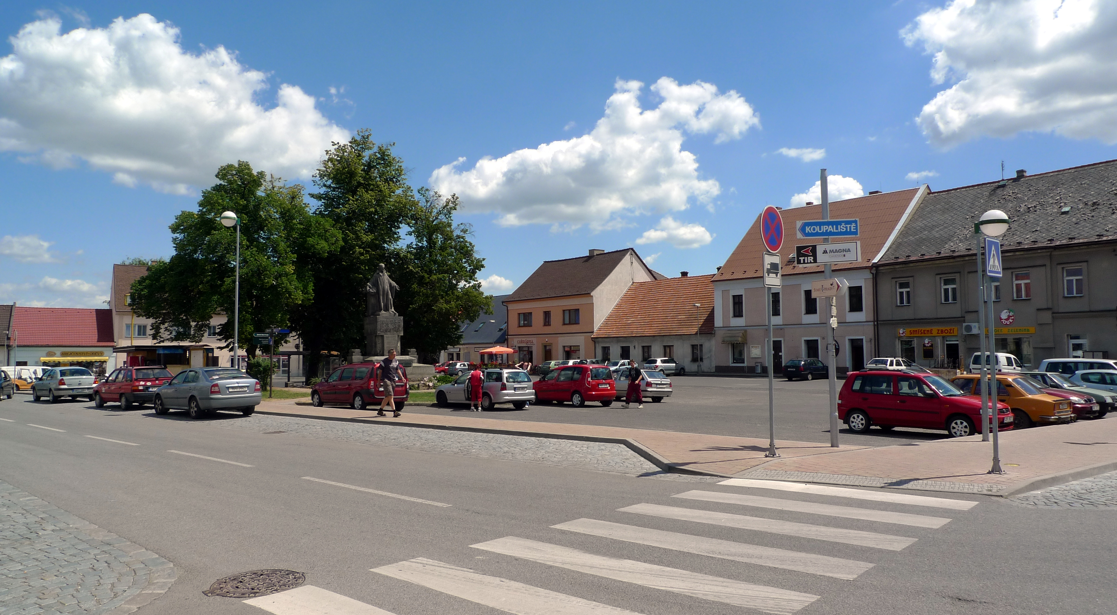 Main square in the city of Libáň, Czech Republic.